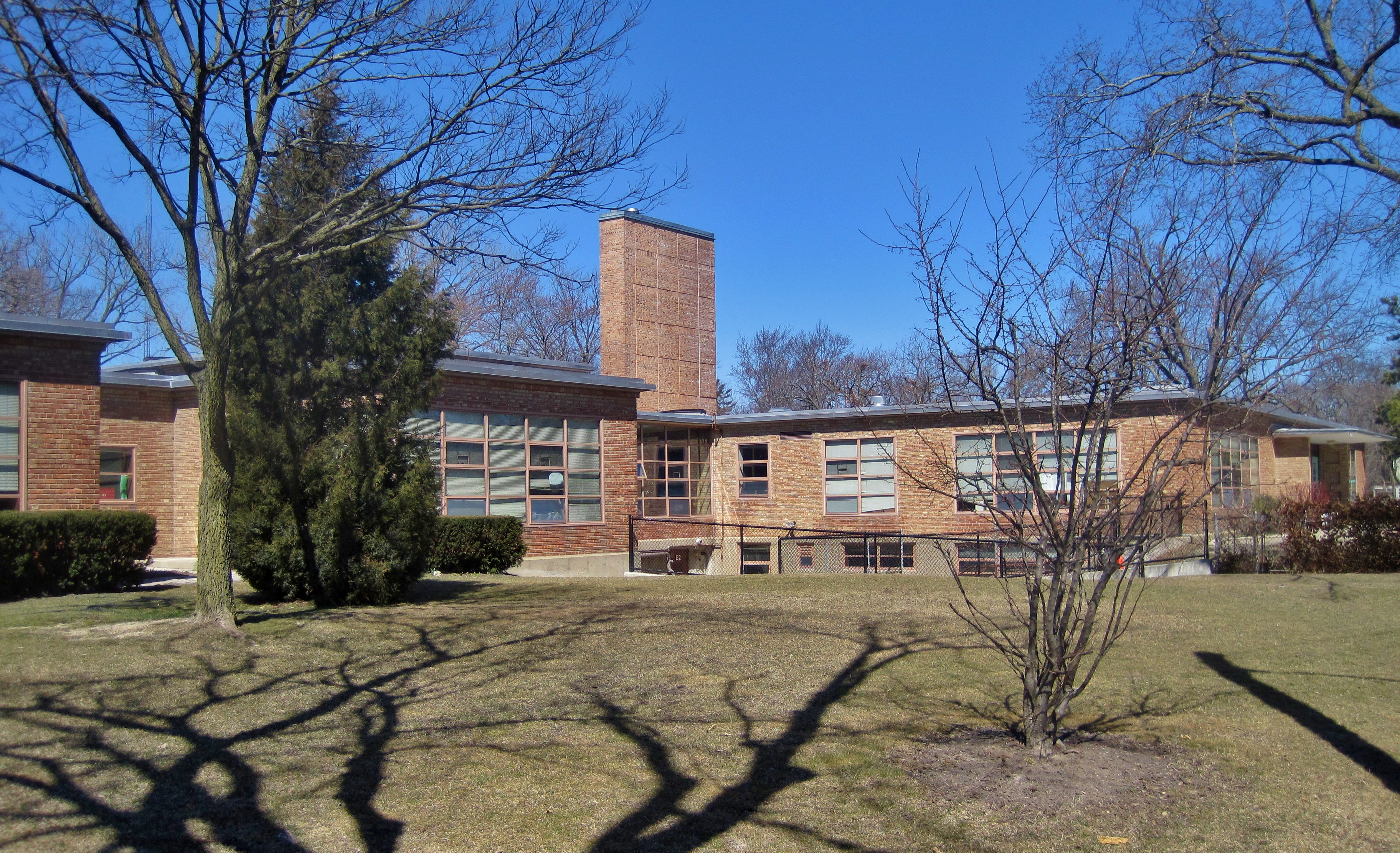 Crow Island School in Winnetka, a national landmark (1940). Superintendent of Winnetka Carleton W. Washburn developed what he called the Winnetka Plan, an effort to emphasize progressive education. In 1937, the town school board decided to replace Morace Mann School with a new building. It was intended to be a "dream school", although funds were somewhat limited coming out of the Great Depression. The school's furniture was provided by the Illinois Crats Project, part of the Works Project Administration; WPA funds also assisted in construction. Crow Island School was the first zoned by age groups, clustering wings based on grade levels. The school was an immediate sensation when it was completed in 1940, heralded both by educators and architects. The American Institute of Architects presented it an award that year for its excellence in elementary school design. In 1956, it was named the 12th most significant building (1st among schools) in the past 100 years in an Architectural Record poll. It won the AIA 25 Year Award in 1971. The school's jungle gym is reportedly the first in the country.